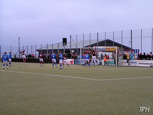 AB Argir scoring a goal against KÍ Klaksvík